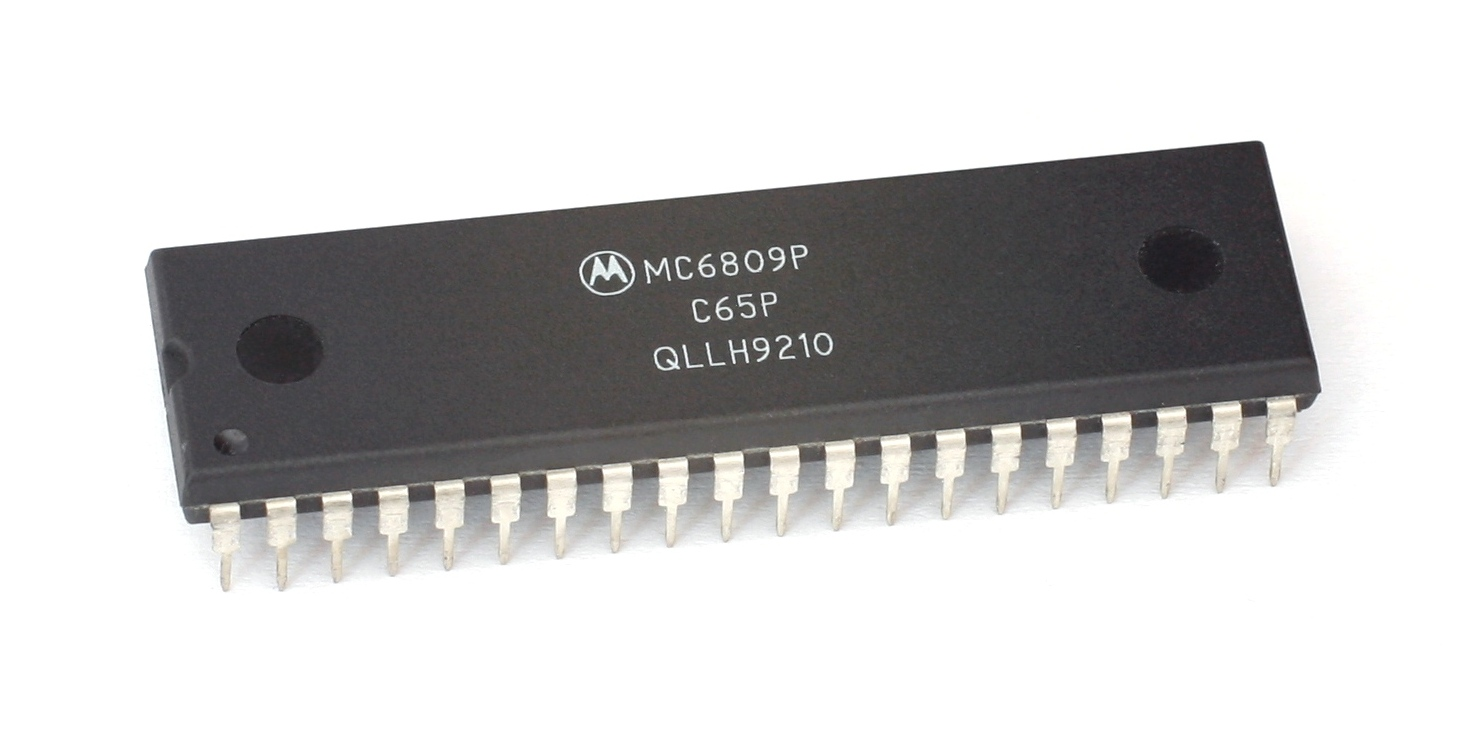 CPU Motorola MC6809